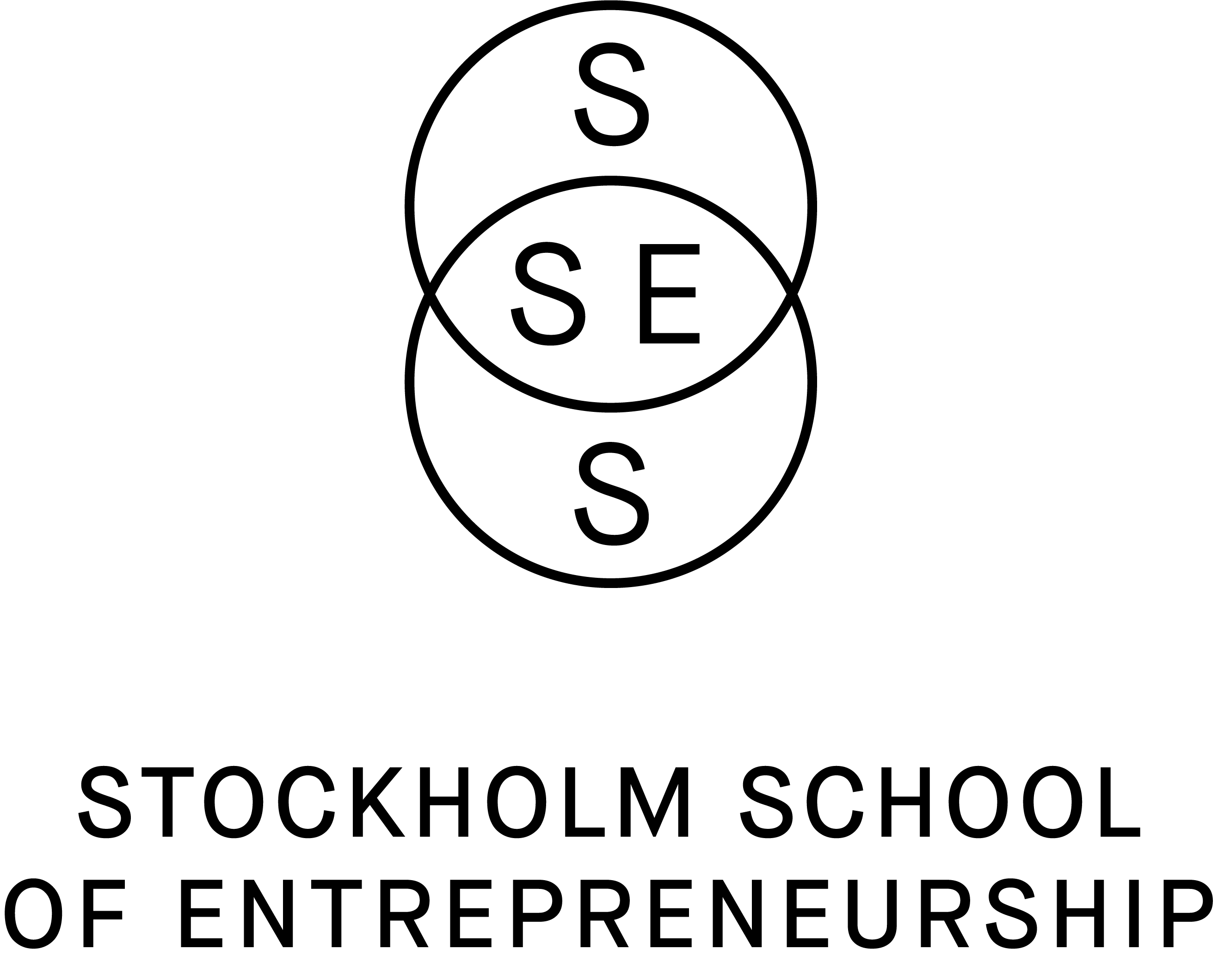 Stockholm School of Entrepreneurship